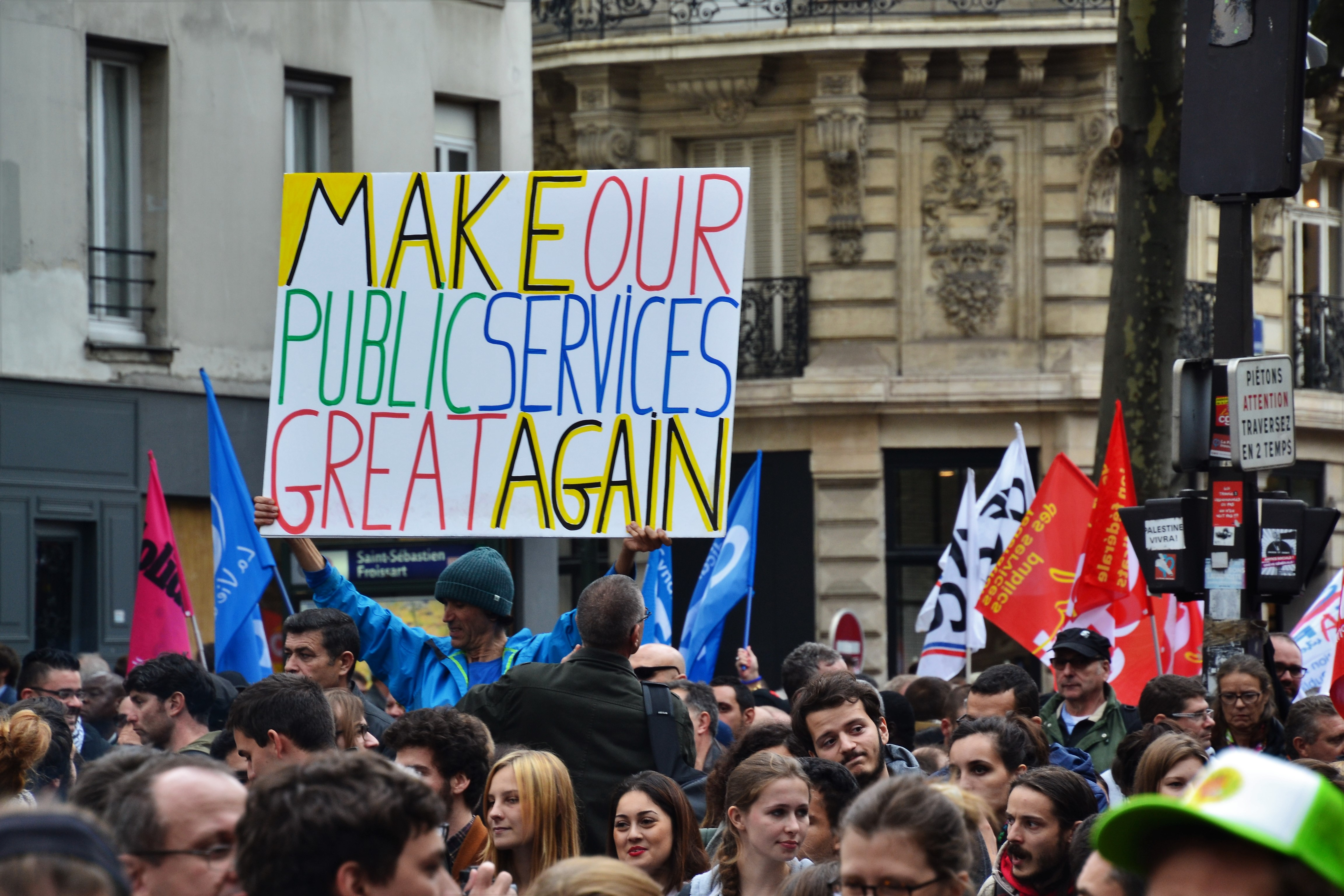 Mass street protest against french president Emmanuel Macron’s overhaul of labour laws – Civil servant's strike & demo in Paris - 10th october